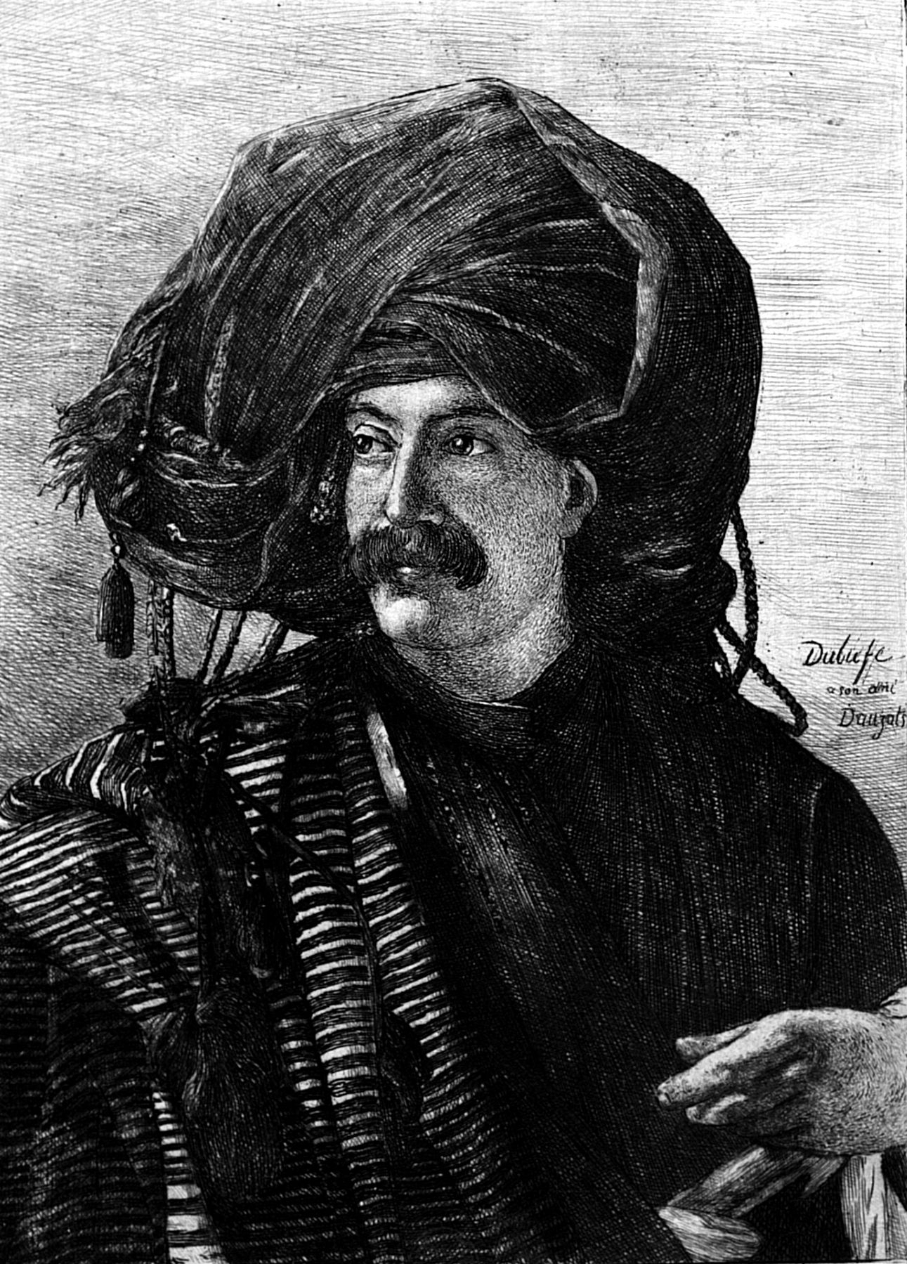 Portrait of Adrien Dauzats (1808-1868). From L'Artiste, vol. XI, April 1896.